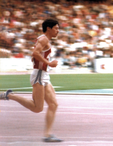 Thomas Wessinghage at the "International Track and Field Sports Meeting" in Cologne, 1981